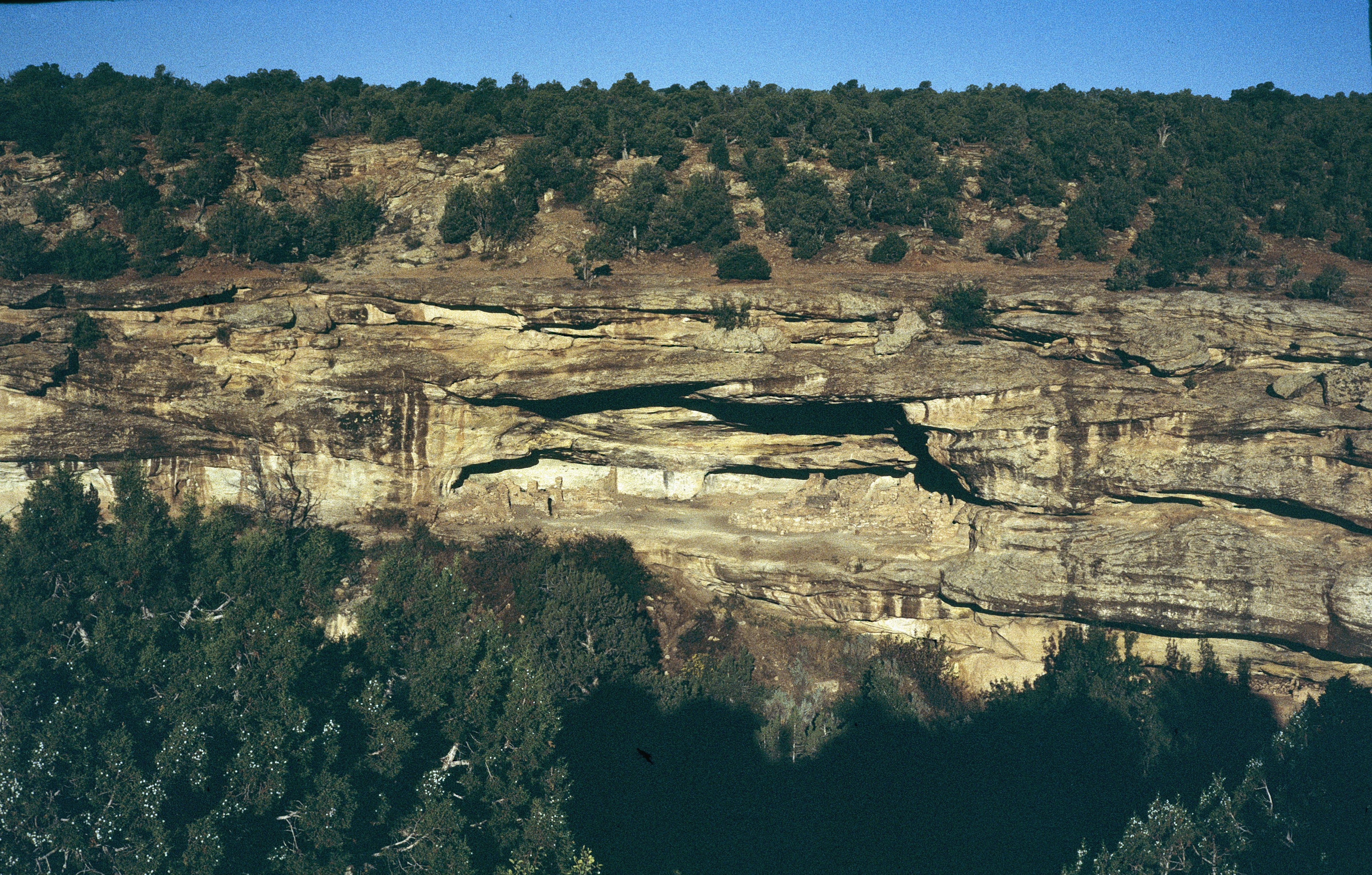 Little Westwater Ruin, Anasazi cliff dwelling near Blanding, UT